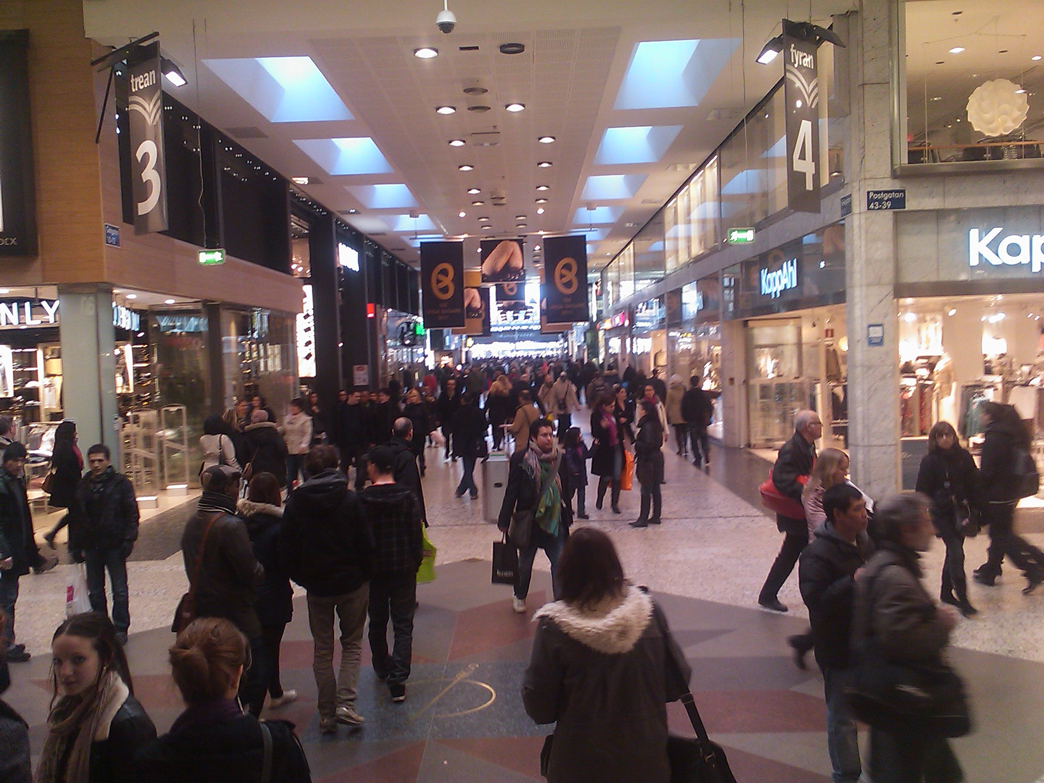 Götgatan, Göteborg, Sweden